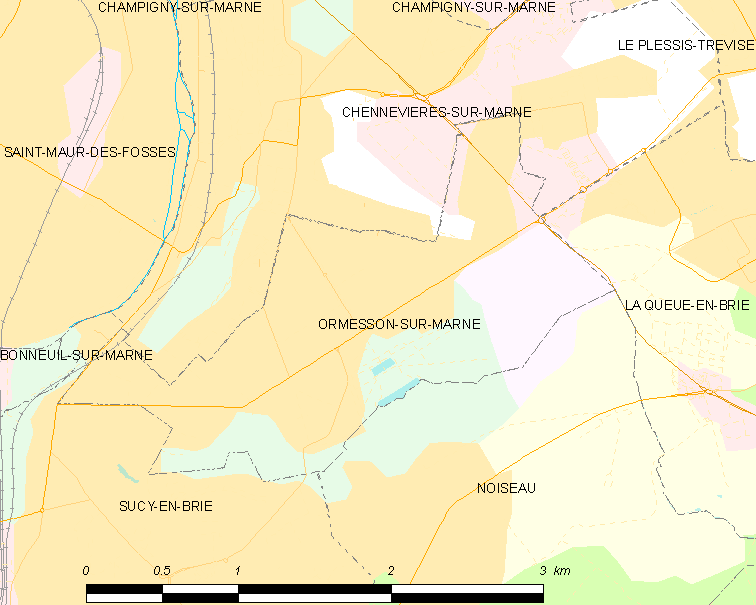 Map of French municipality Ormesson-sur-Marne